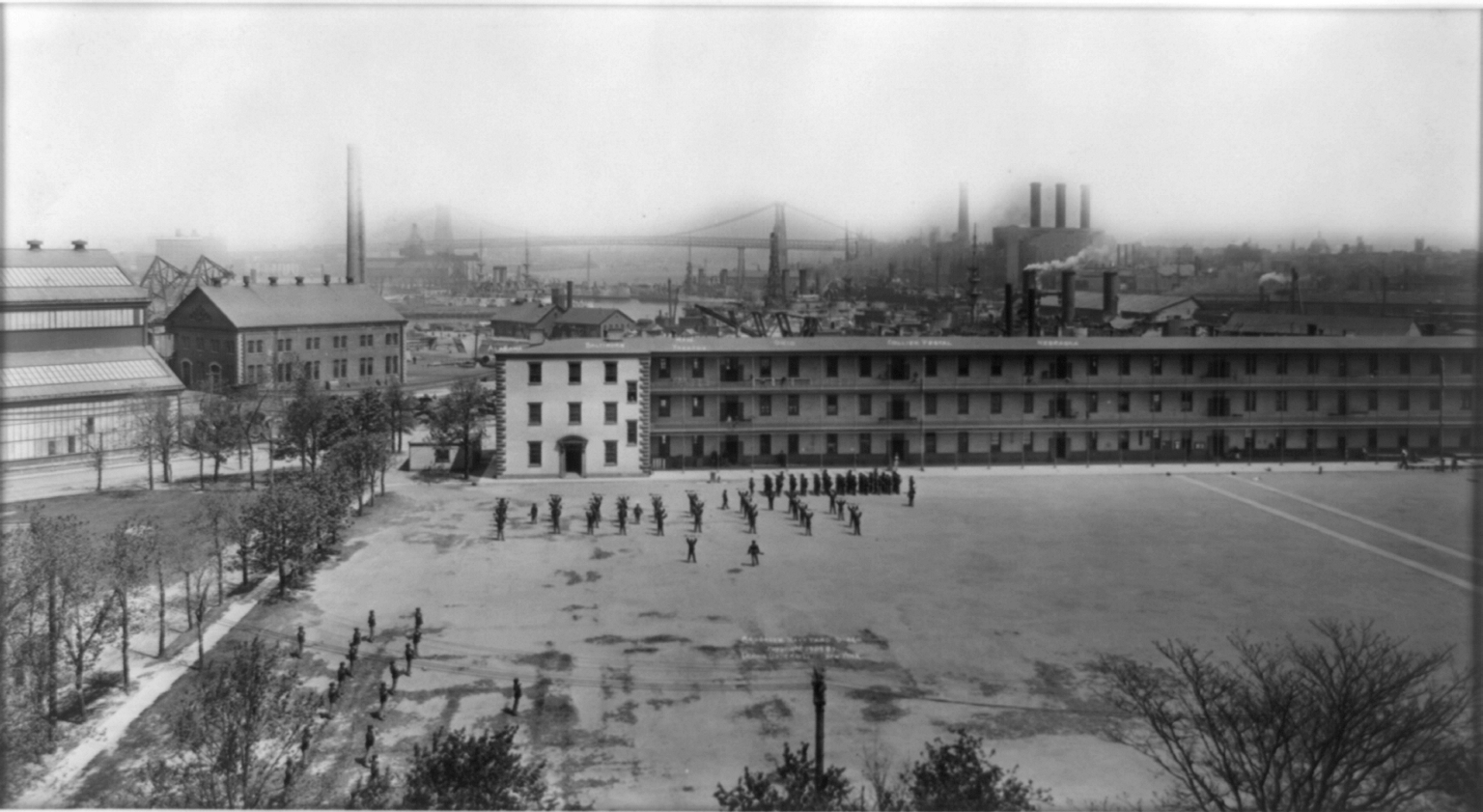 Bird's-eye view showing barracks and men doing exercises at the New York Naval Shipyard, Brooklyn, New Yorkk (USA); The harbour is visible in the background.